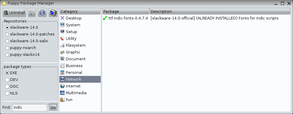 Puppy Package Manager showing indic fonts package from Slackware 14.0 is already installed on Slacko Puppy Linux